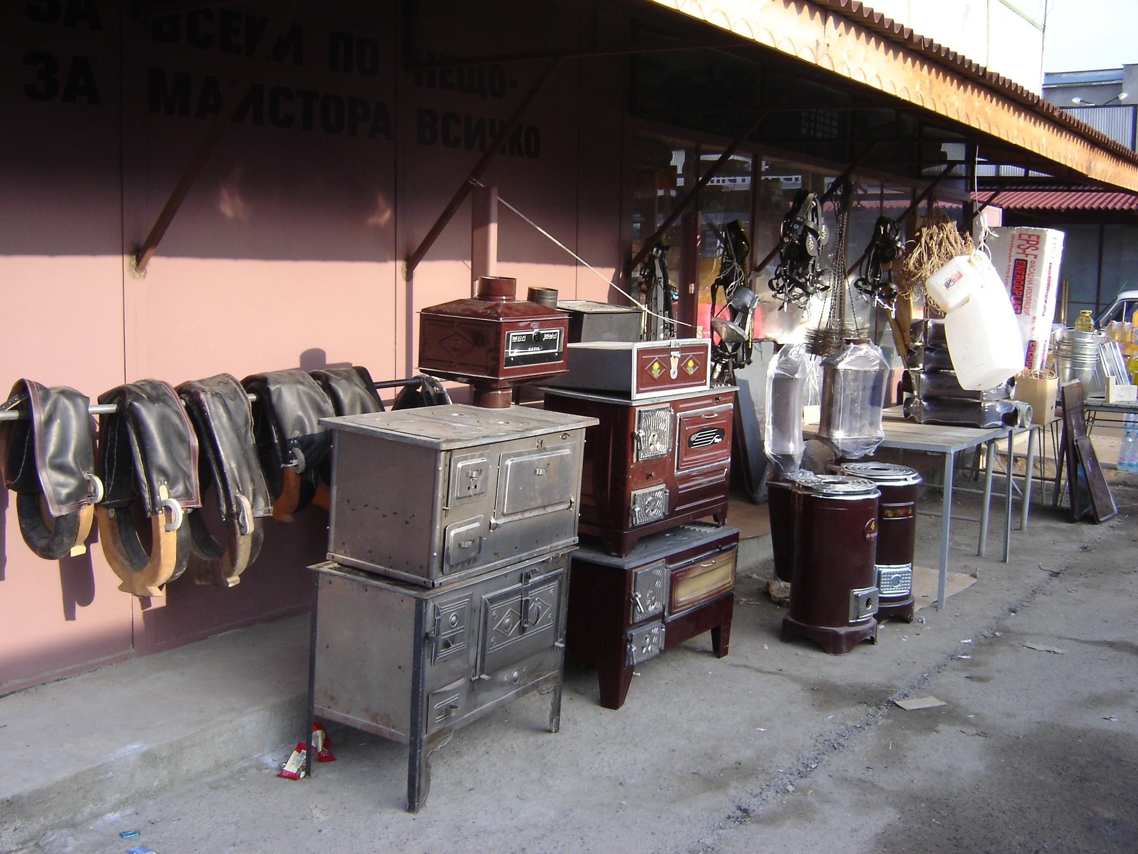 The town market